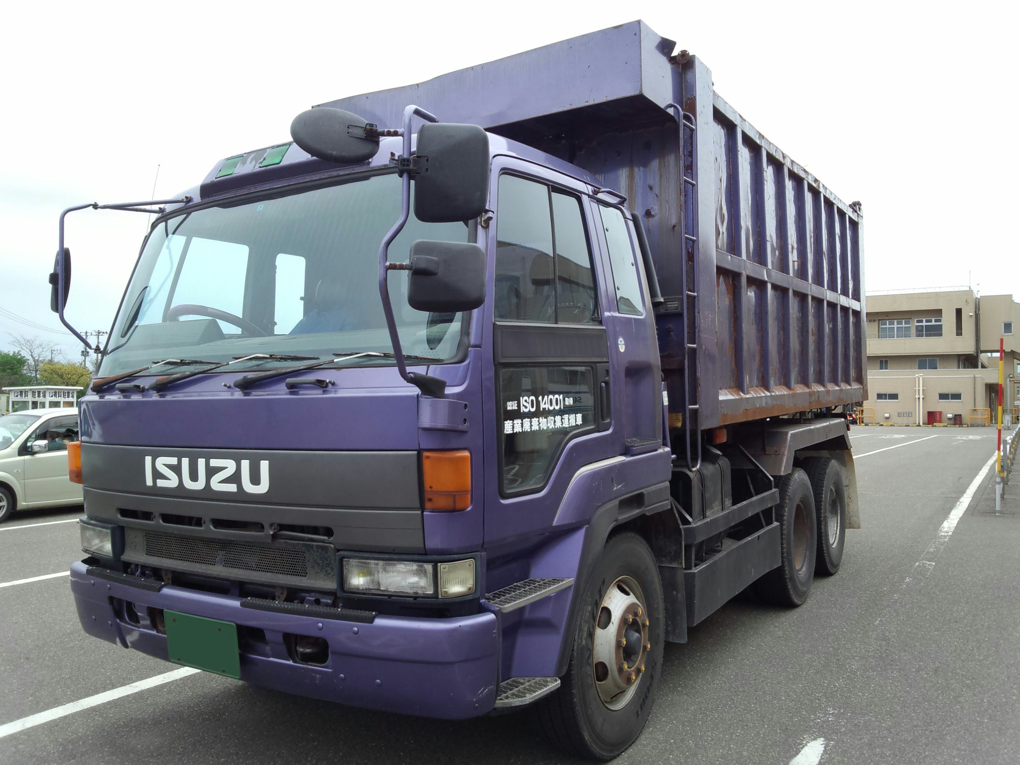 ISUZU, Isuzu 810EX, （It is called C-series excluding a Japanese market.）